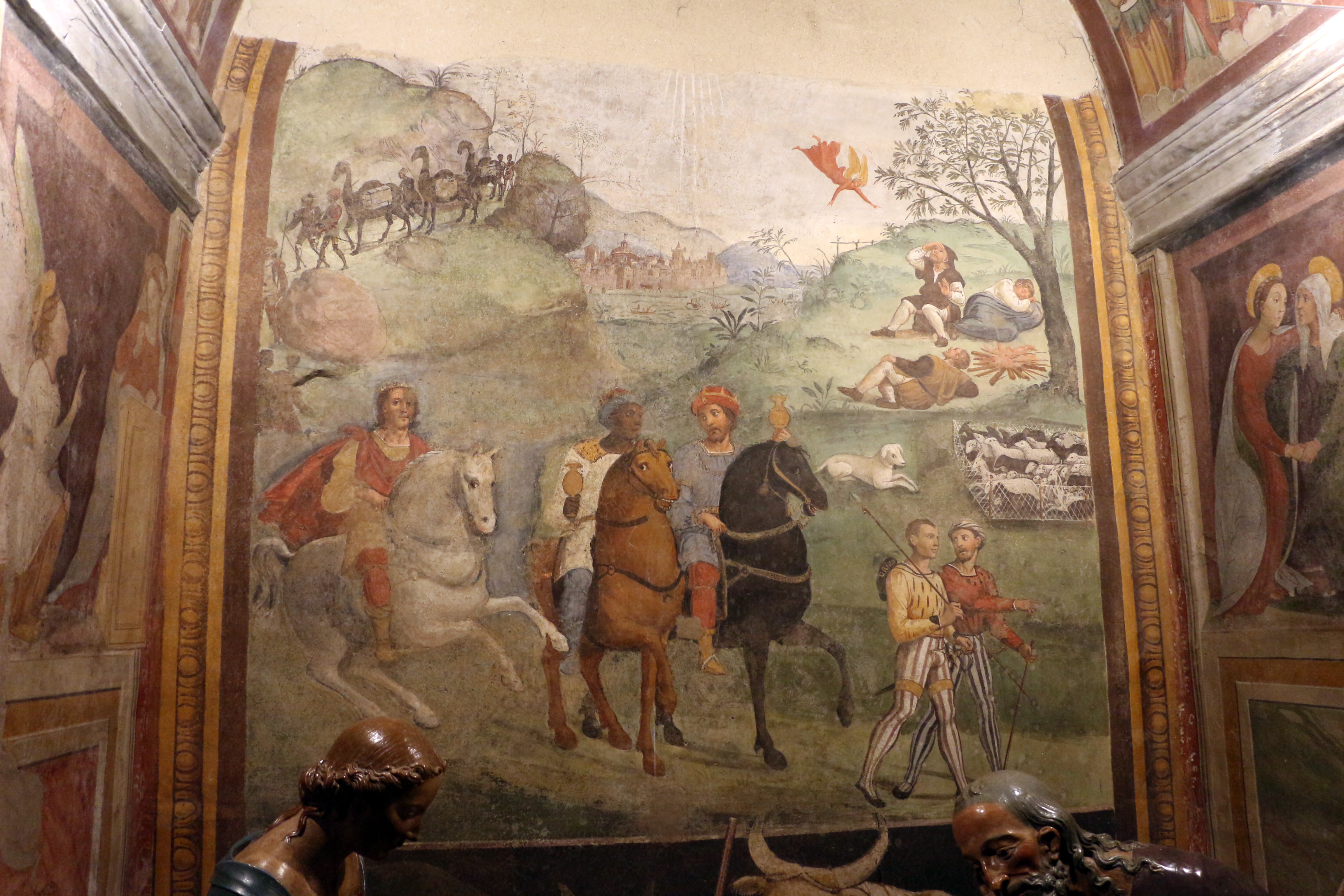 San Giovanni Battista (Pomarance)